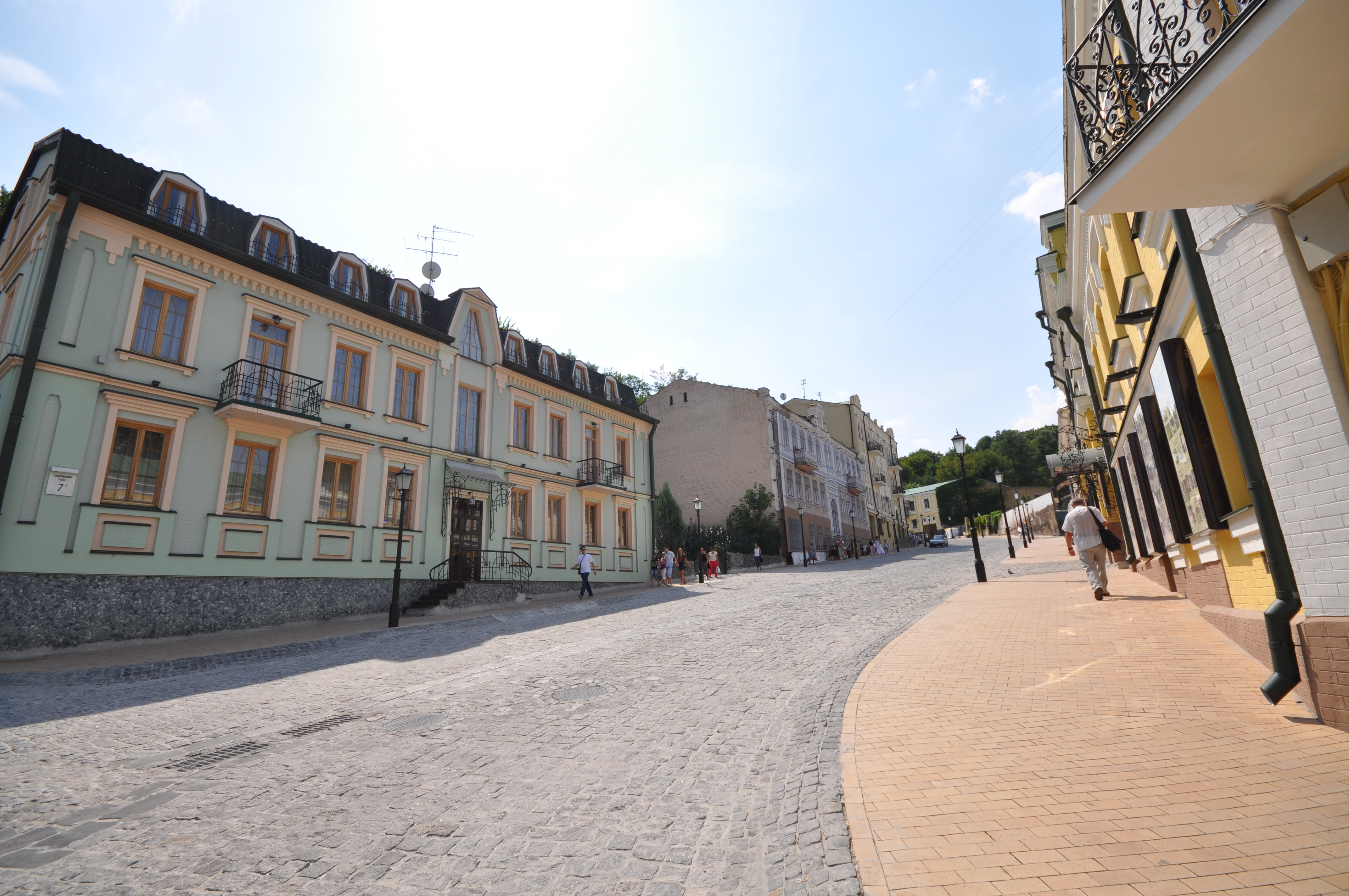 Andriyivskyy Descent (Ukrainian: Андріївський узвіз literally: Andrew's Descent) is a historic descent connecting Kiev's Upper Town neighborhood and the historically commercial Podil neighborhood. The street, often advertised by tour guides and operators as the "Montmartre of Kiev", is a major tourist attraction of the city. The descent, totalling 720 metres (2,360 ft) in length, is constructed of laid cobblestones. It winds down steeply around the Zamkova Hora hill, ending near the Kontraktova Square in the Podil. The Andriyivskyy Descent is marked by a couple historic landmarks, including the Castle of Richard the Lionheart, the 18th century baroque Saint Andrew's Church, famed Russian writer Mikhail Bulgakov's house, and numerous other monuments. Recent talk of the descent's reconstruction has been going since 2006, when a local grassroots organization aimed at saving the Andriyivskyy Descent collected more than 1,000 signatures to petition local authorities to take action on the descent's reconstruction. On June 23, 2009, the Kiev City Council administration approved the reconstruction of the Andriyivskyi Descent, which was officially announced a year earlier by Mayor Leonid Chernovetsky. The exact timeline for reconstruction has not yet been adopted, although the reconstruction's budget has been drafted in the city's 2010 budget